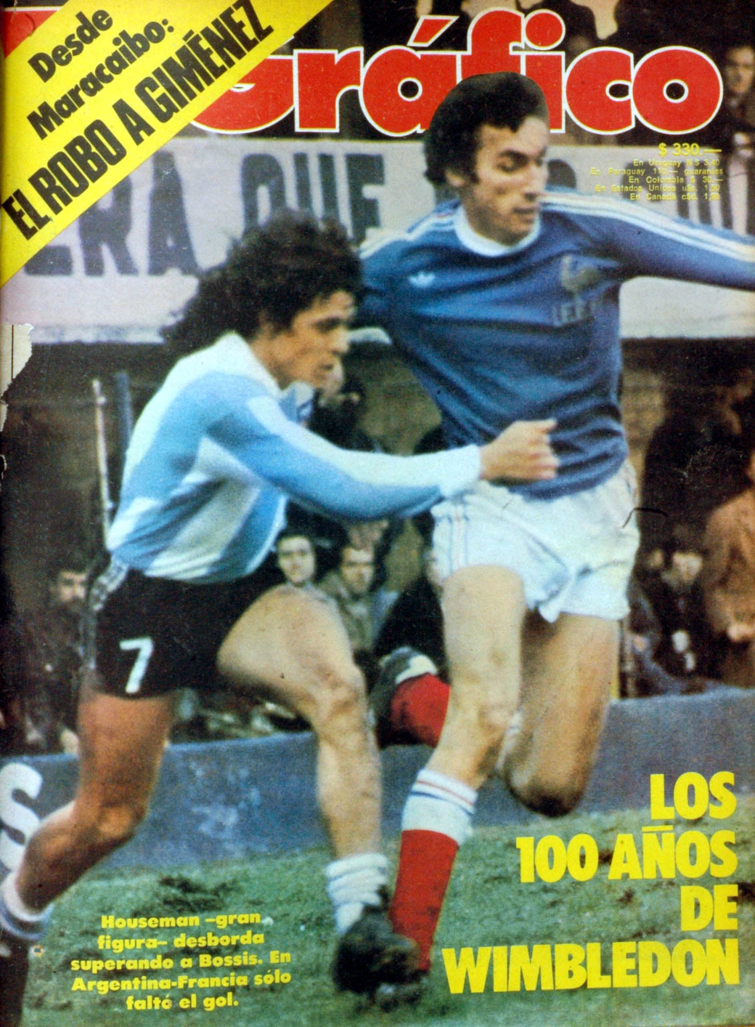 René Houseman vs Maxime Bossis, Argentina (0) vs France (0), friendly in Buenos Aires.